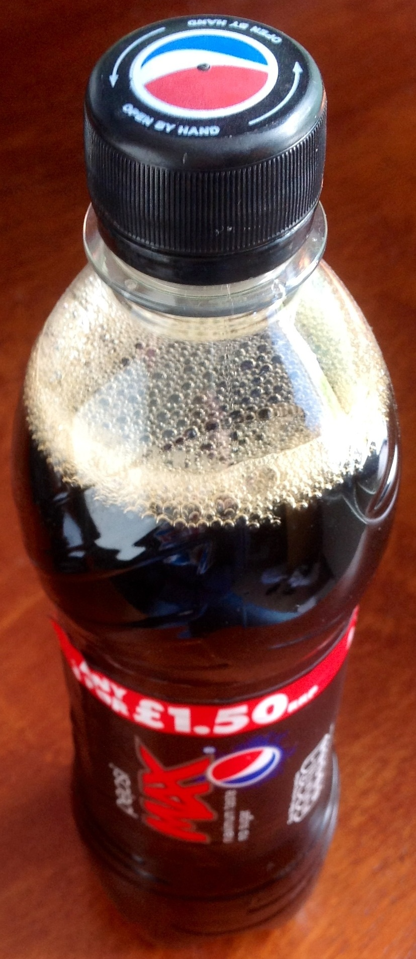 A 500ml bobble of Pepsi Max, from the United Kingdom.